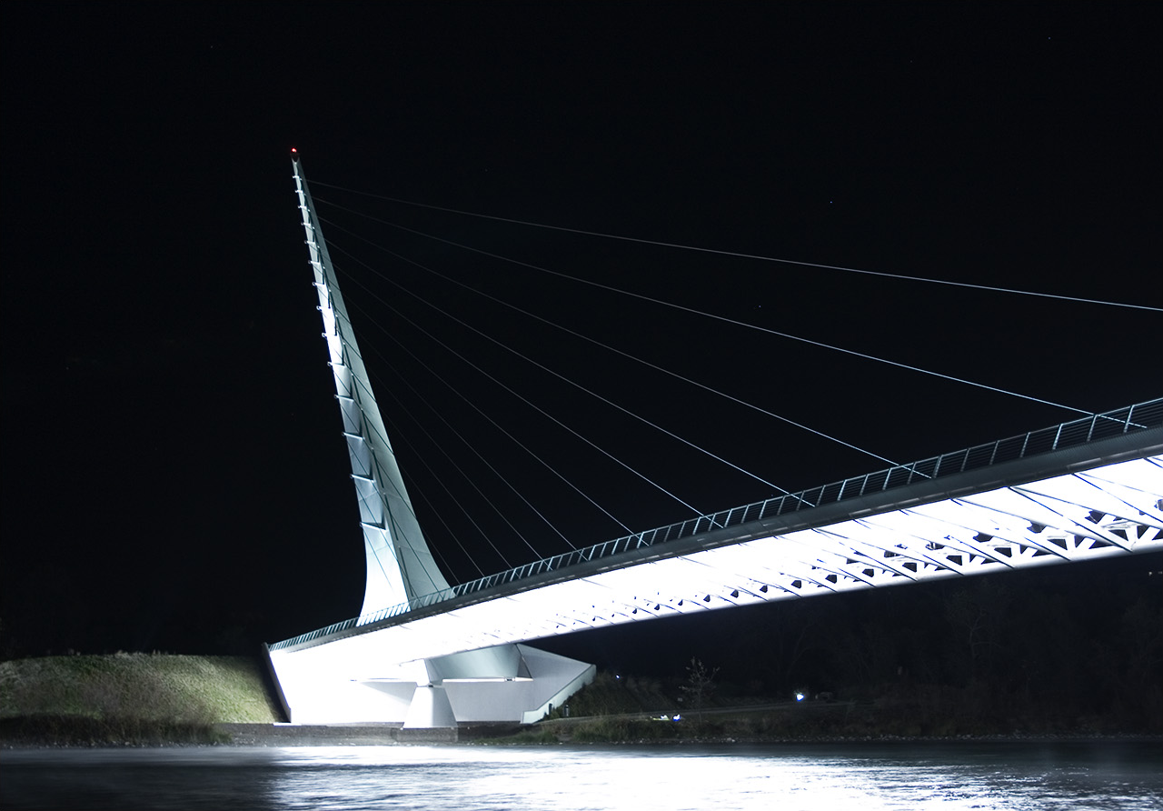 Sundial Bridge By: Nathan Soliz Location: Redding, California